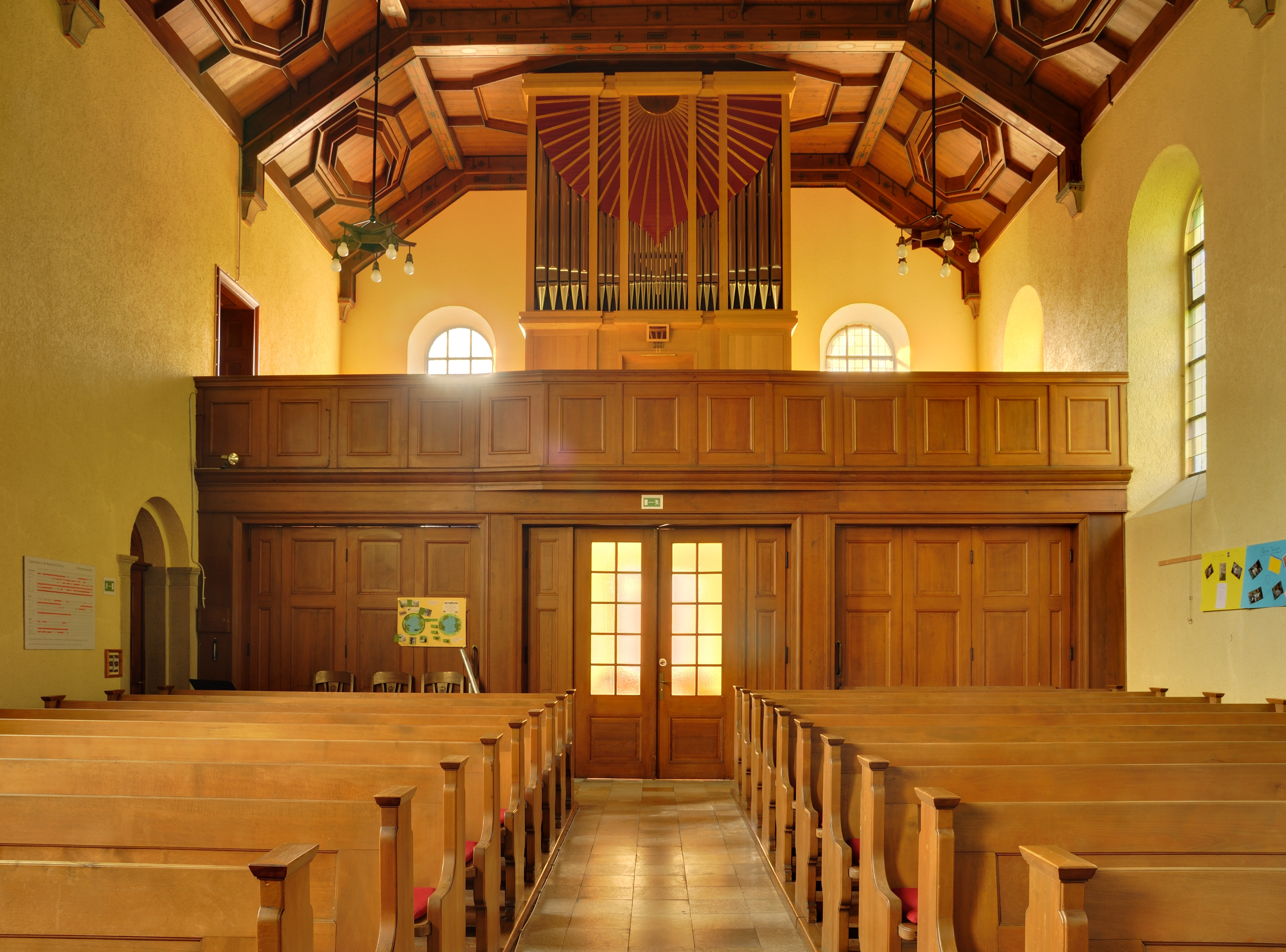 Schönau: Mountain Church (Protestant Church)